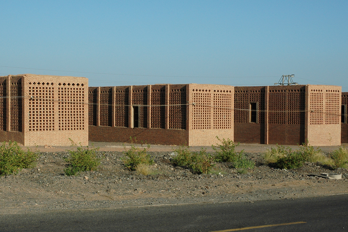 Raisin house for dying up grapes, looking from outside. taken in Turpan, Xinjiang, China. August 2005.